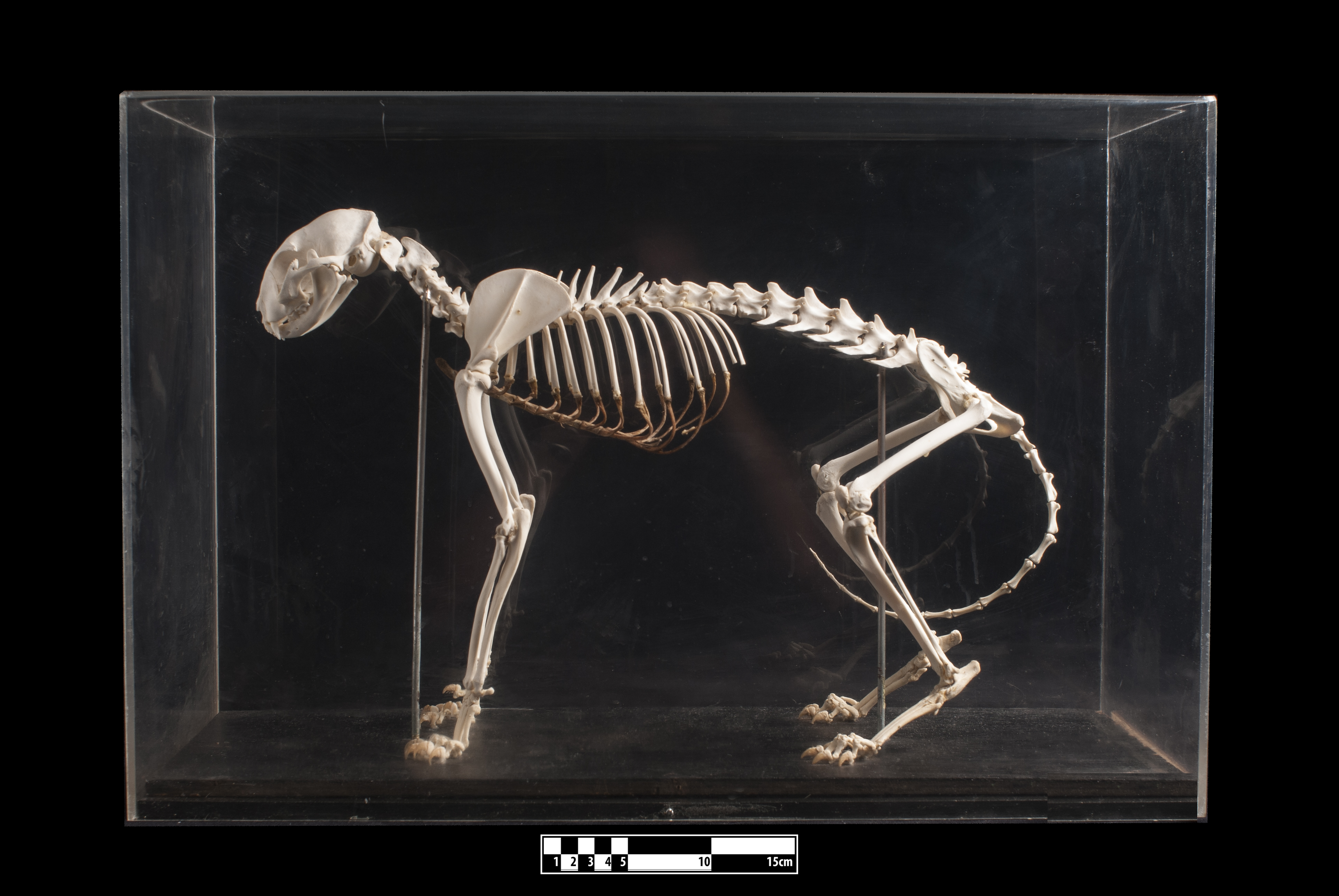 Cat Felis catus. Specimen of cat skeleton prepared by the bone maceration technique and on display at the Museum of Veterinary Anatomy FMVZ USP. This file was published as the result of a partnership between the Museum of Veterinary Anatomy FMVZ USP, the RIDC NeuroMat and the Wikimedia Community User Group Brasil. This GLAM project is reported. Photography: Museum of Veterinary Anatomy FMVZ USP. Author: Wagner Souza e Silva.